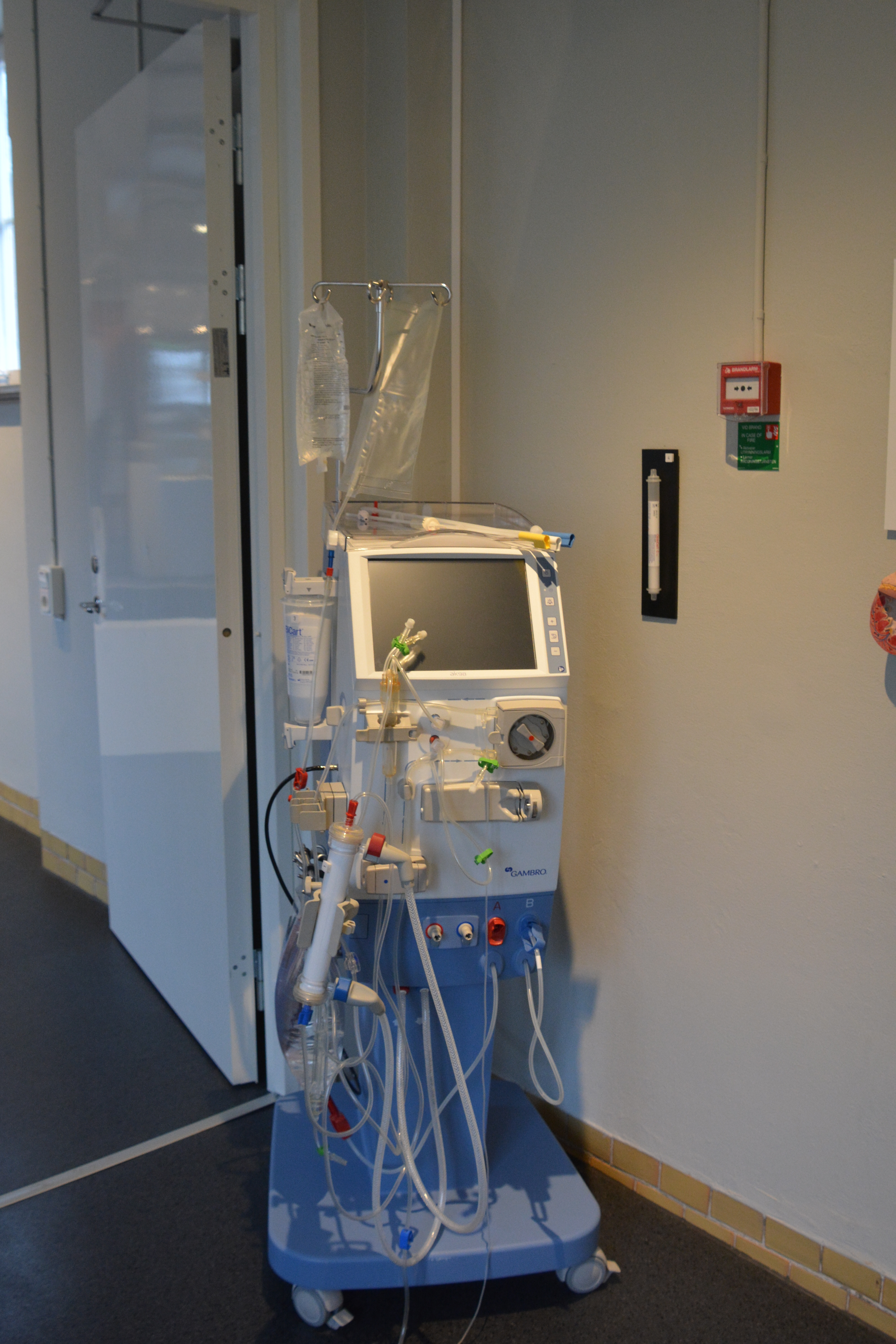 Livets museum, Lund